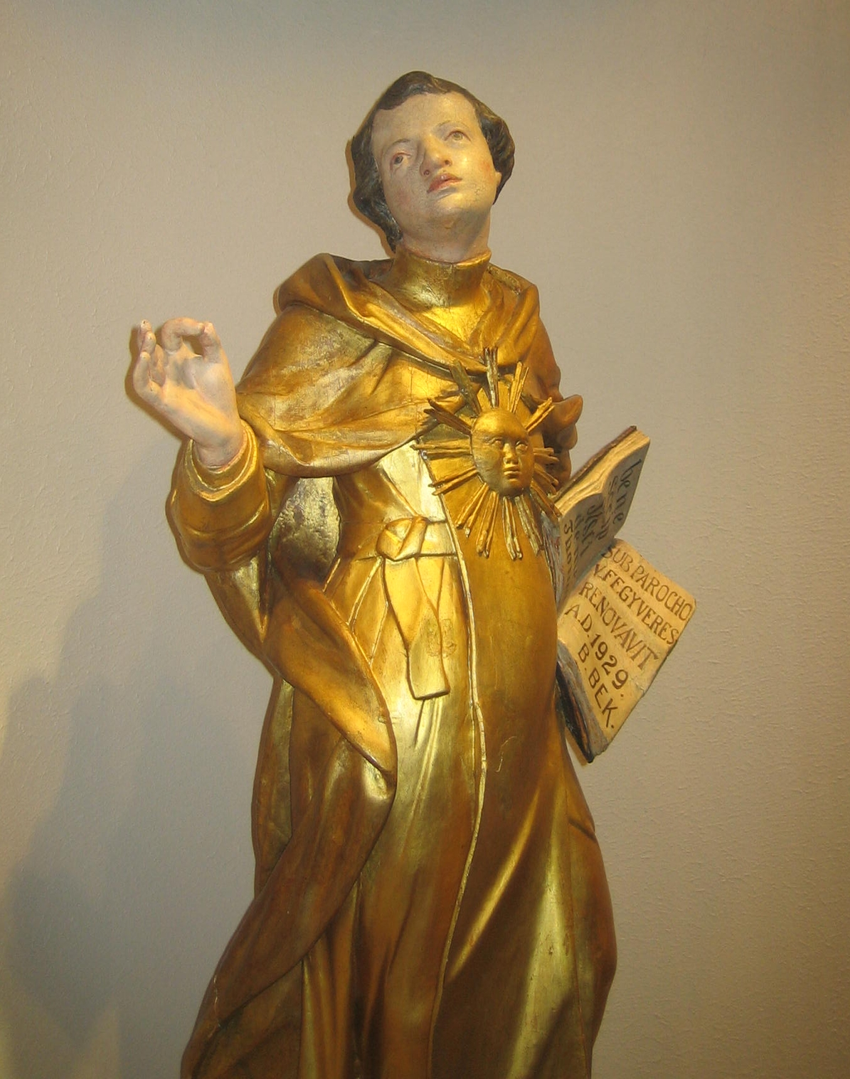 Sculpture of Thomas Aquinas, 17th century, at Slovenské národné múzeum, Bratislava, Slovakia